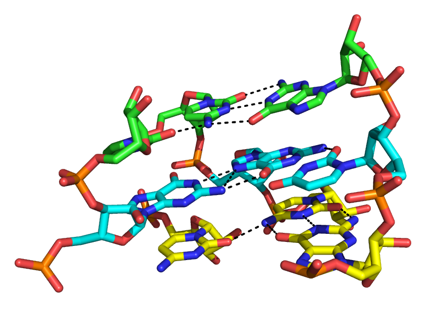 author Alice Zhou and Henry Nguyen